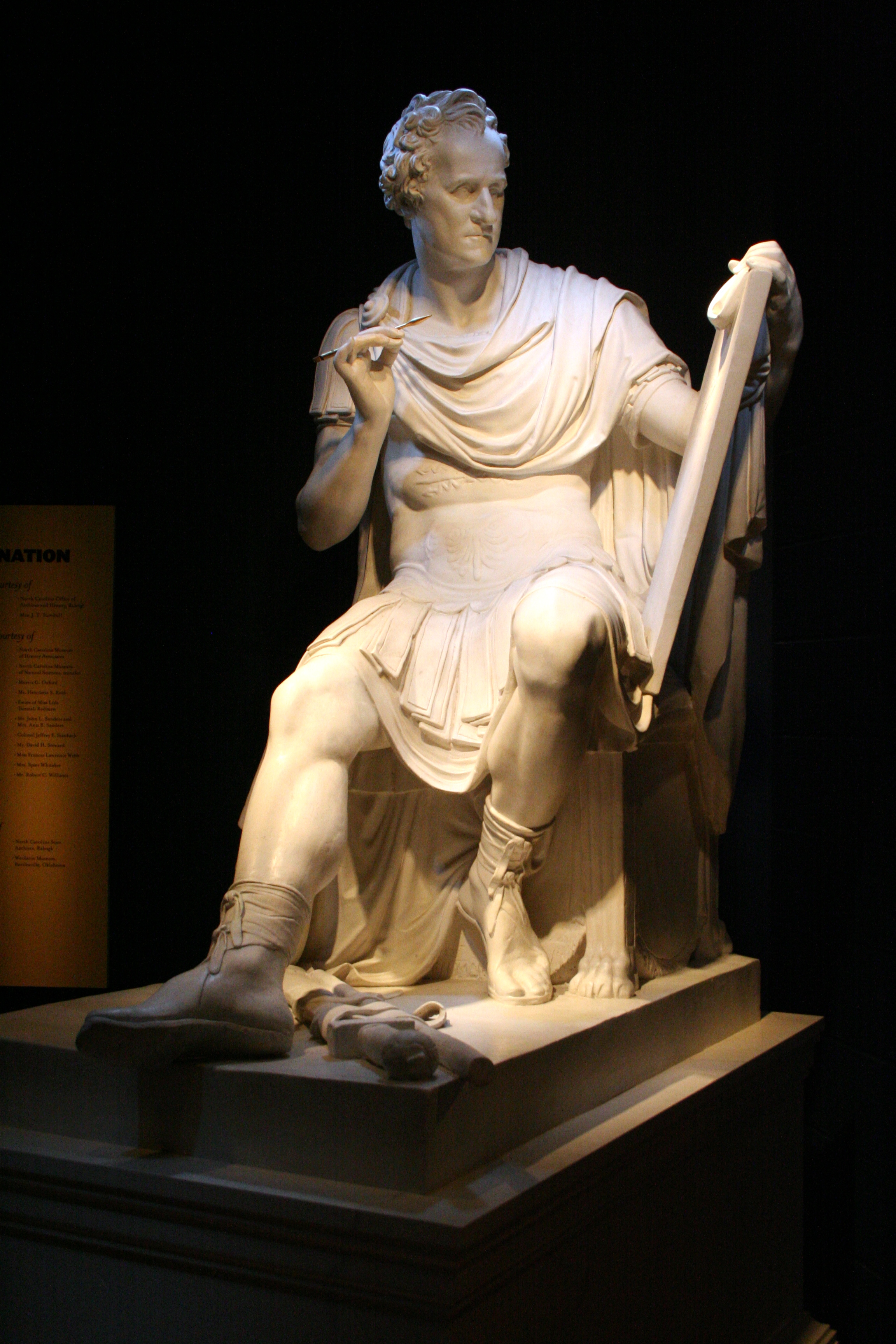 Plaster replica of Statue of George Washington by Canova at the North Carolina Museum of History. The original was completed 1821, the plaster replica 1910 (